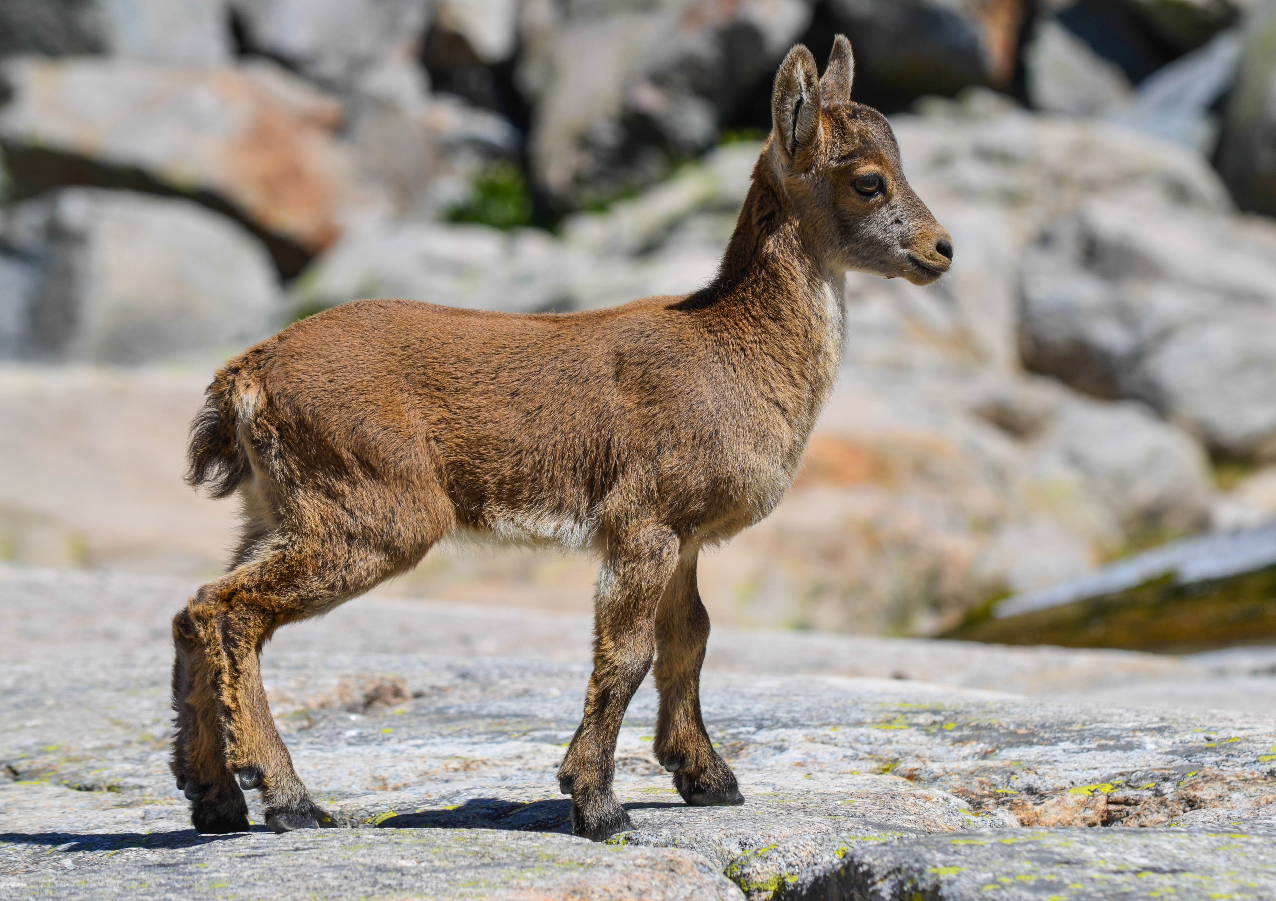 A three month old Iberian ibex (Capra pyrenaica victoriae) in Sierra de Gredos, Spain.